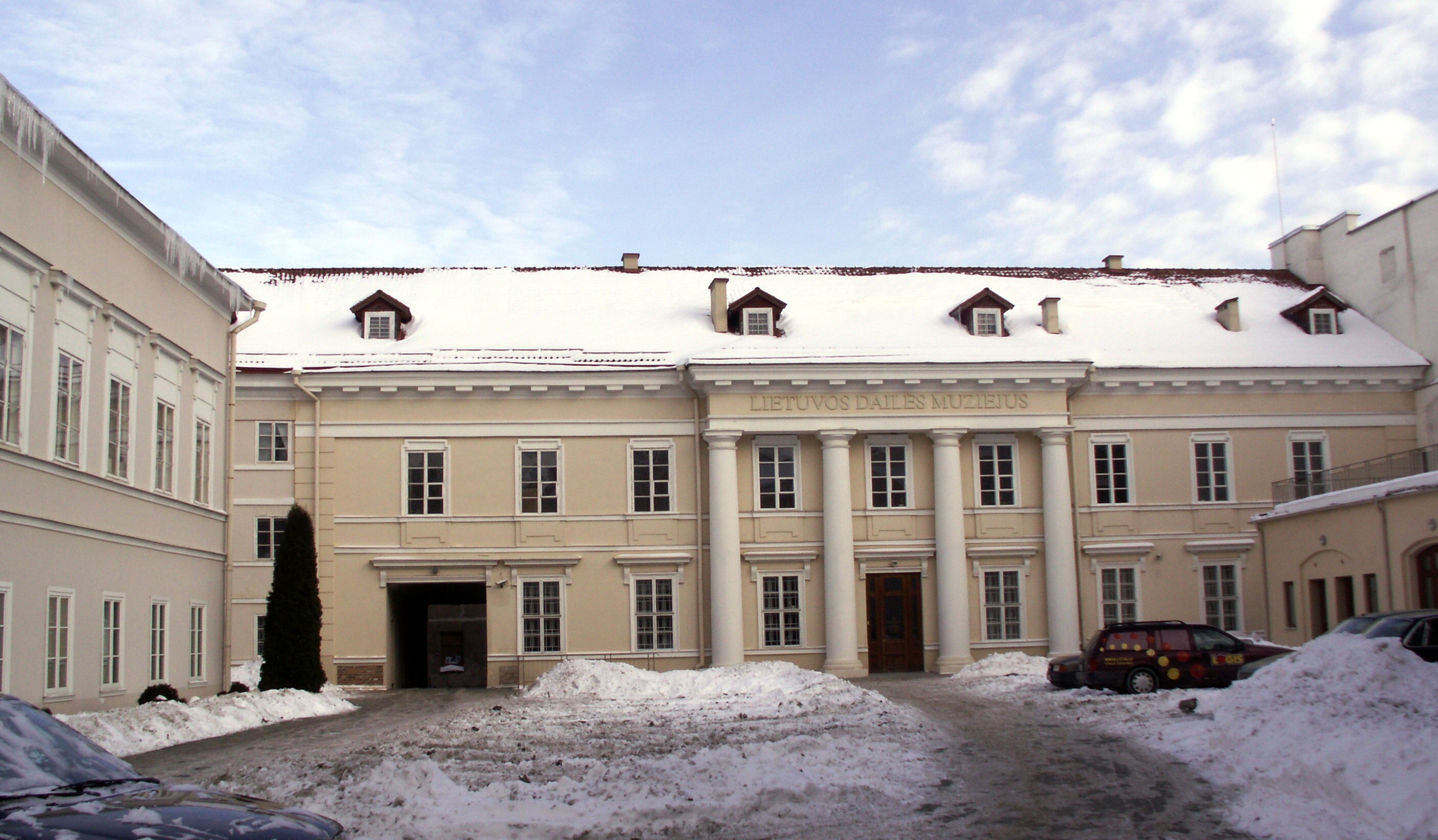 Lithuanian Art museum in Vilnius